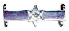 Bar to the iPhrothiya yeSiliva - Silver Protea, post-nominal letters PS, awarded to persons who have distinguished themselves by outstanding leadership or outstanding meritorious service and particular devotion to duty